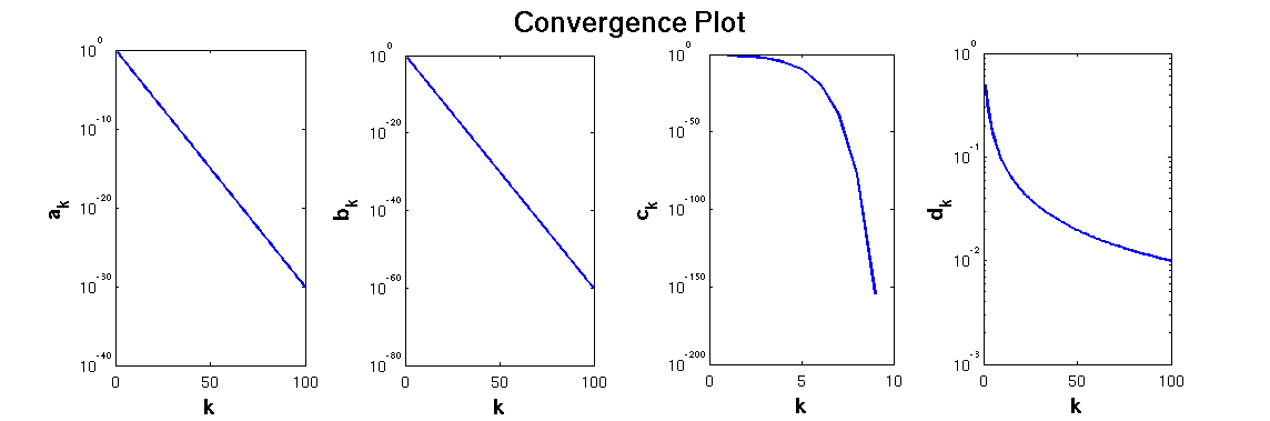 Plots showing: Linear, Linear, Superlinear/Quadratic and sublinear rate of convergence of sequences.